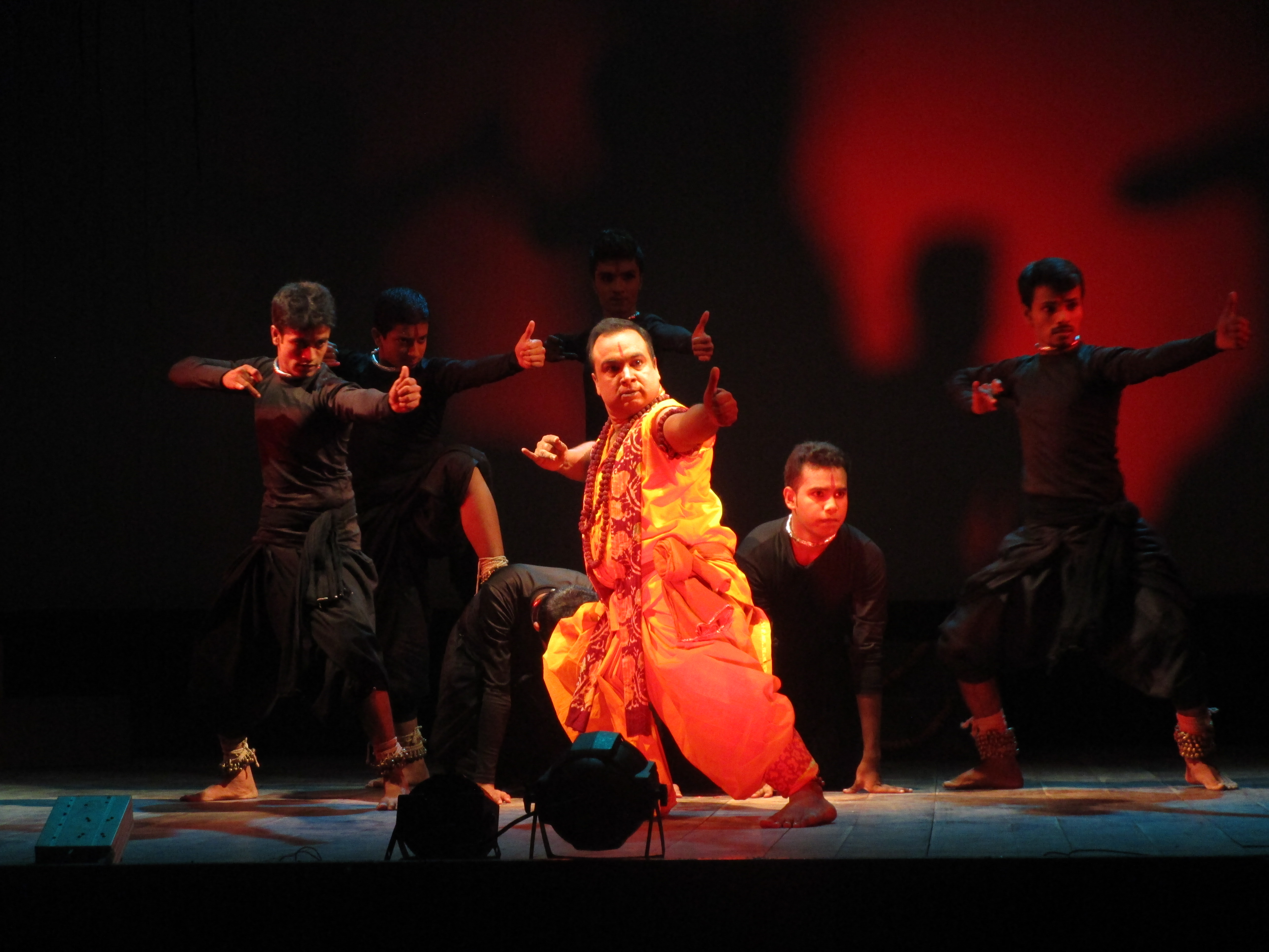 A Production of Chitrangada by the theater group Bahurupi Natya Sangstha.